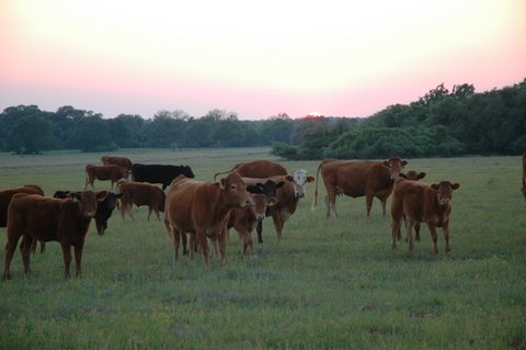 Free-raised calves never tethered, free to roam.